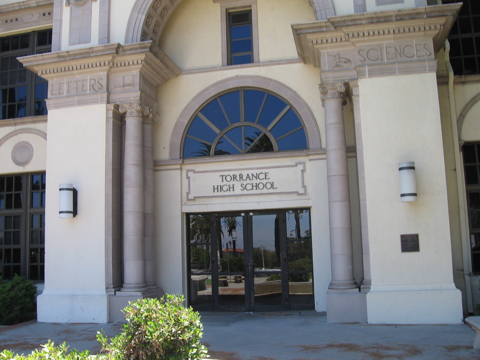 Entrance facade/portal of the Main Building at Torrance High School, located at 2200 W. Carson Street in Torrance, southwestern Los Angeles County, California 90501. The 1917 Mediterranean Revival style building is on the National Register of Historic Places in Los Angeles County.